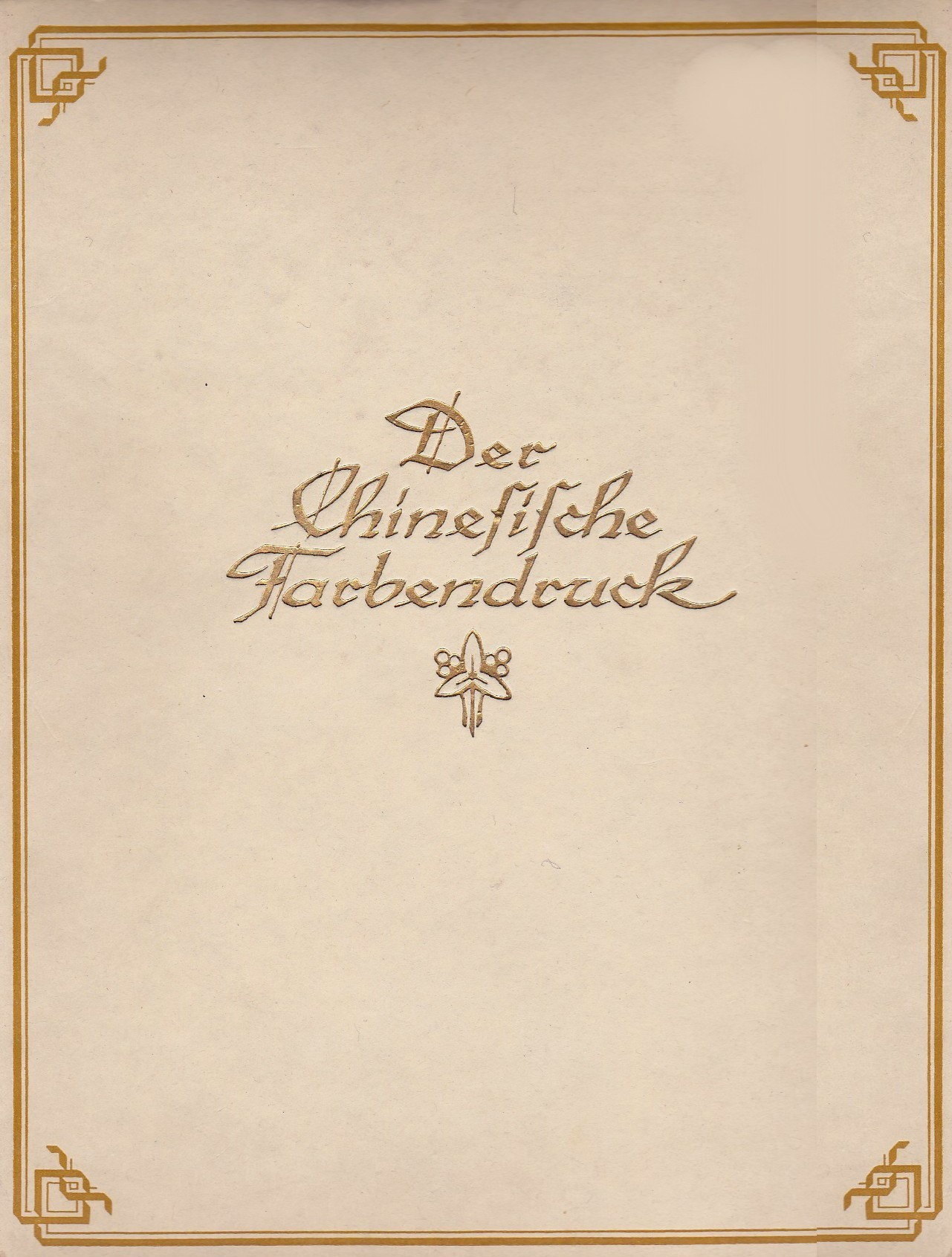 Cover of Julius Kurth on Chinese Colour Prints 1922